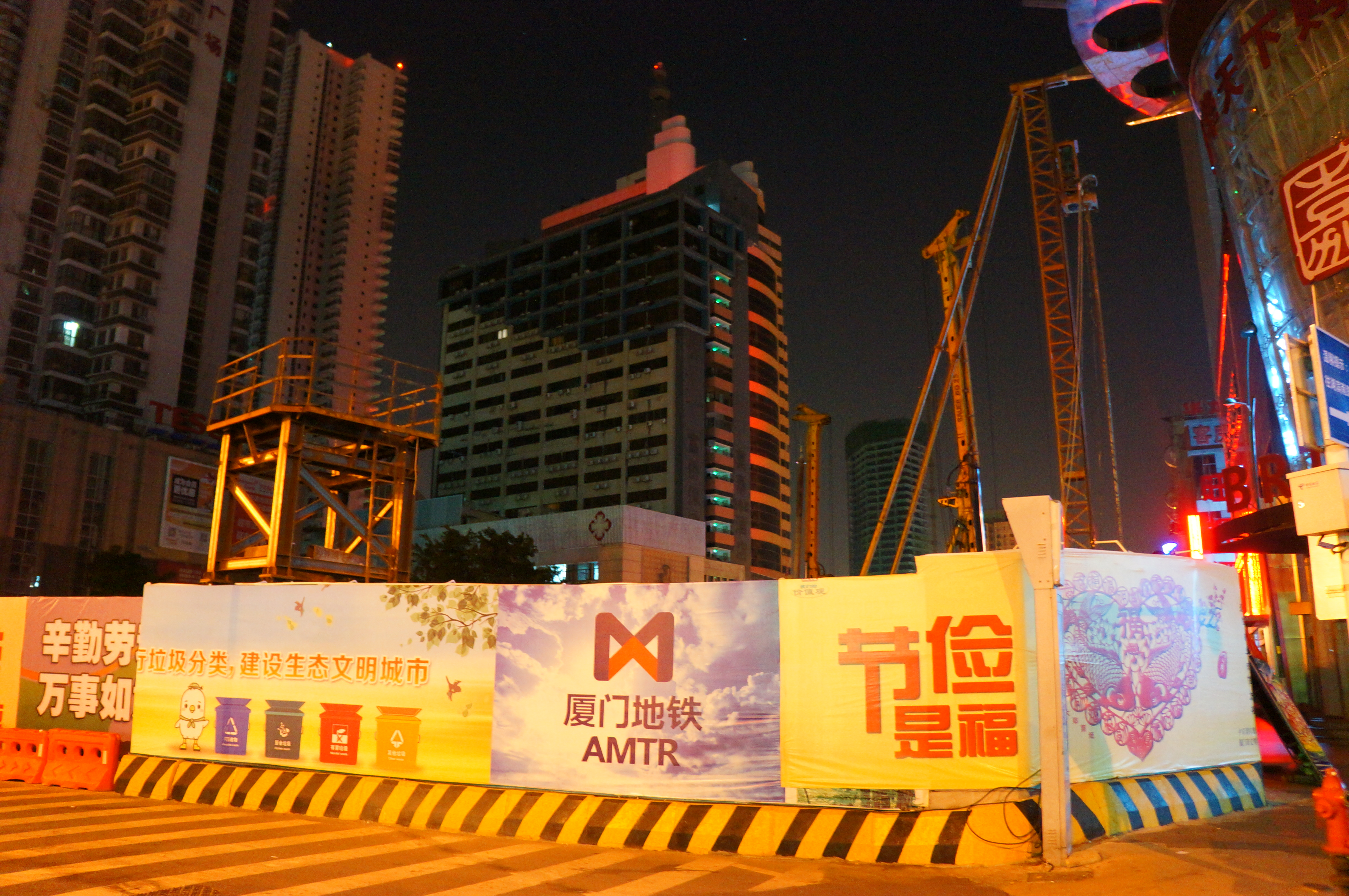 201708 AMTR Xiamen Station under Construction. Unlike Hangzhou, AMTR is still under construction during the preparation period of BRICS Summit.